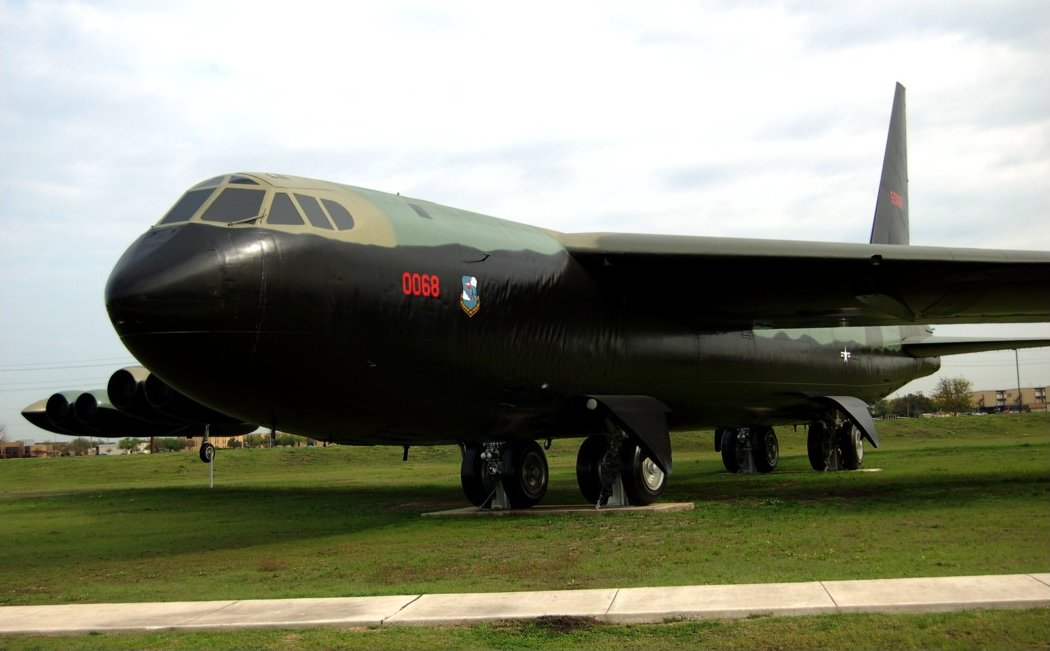 Front view of a B-52. Lackland Air Force Base, San Antonio, Texas (March 2007). Photo by Peter Rimar. This image was taken in direct support of the Aviation WikiProject.